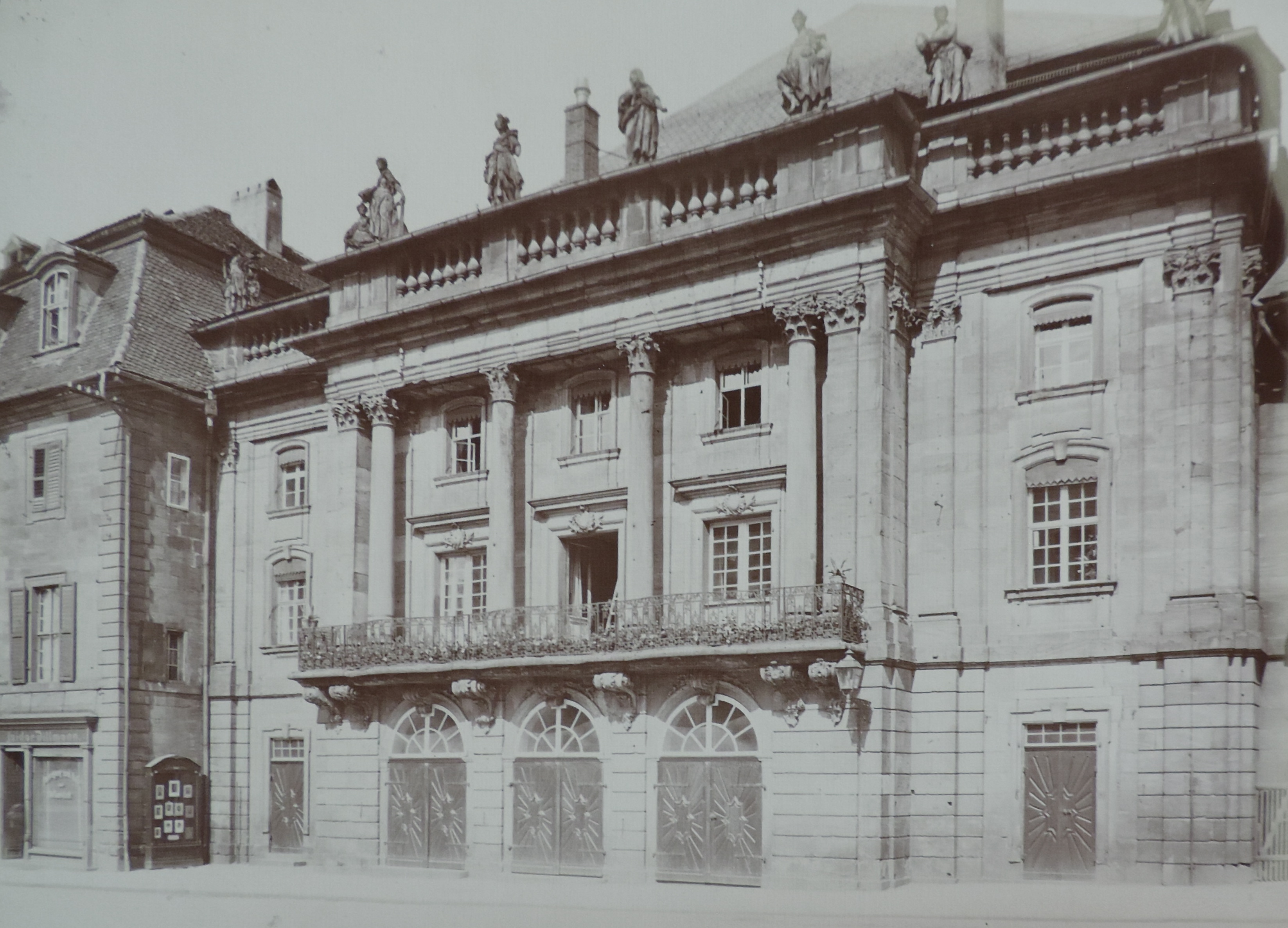 Views and photos of Bayreuth, Germany, gifted to Ferdinand I of Bulgaria to commemorate his 25-year rule. Opera, built 1745 - 49.